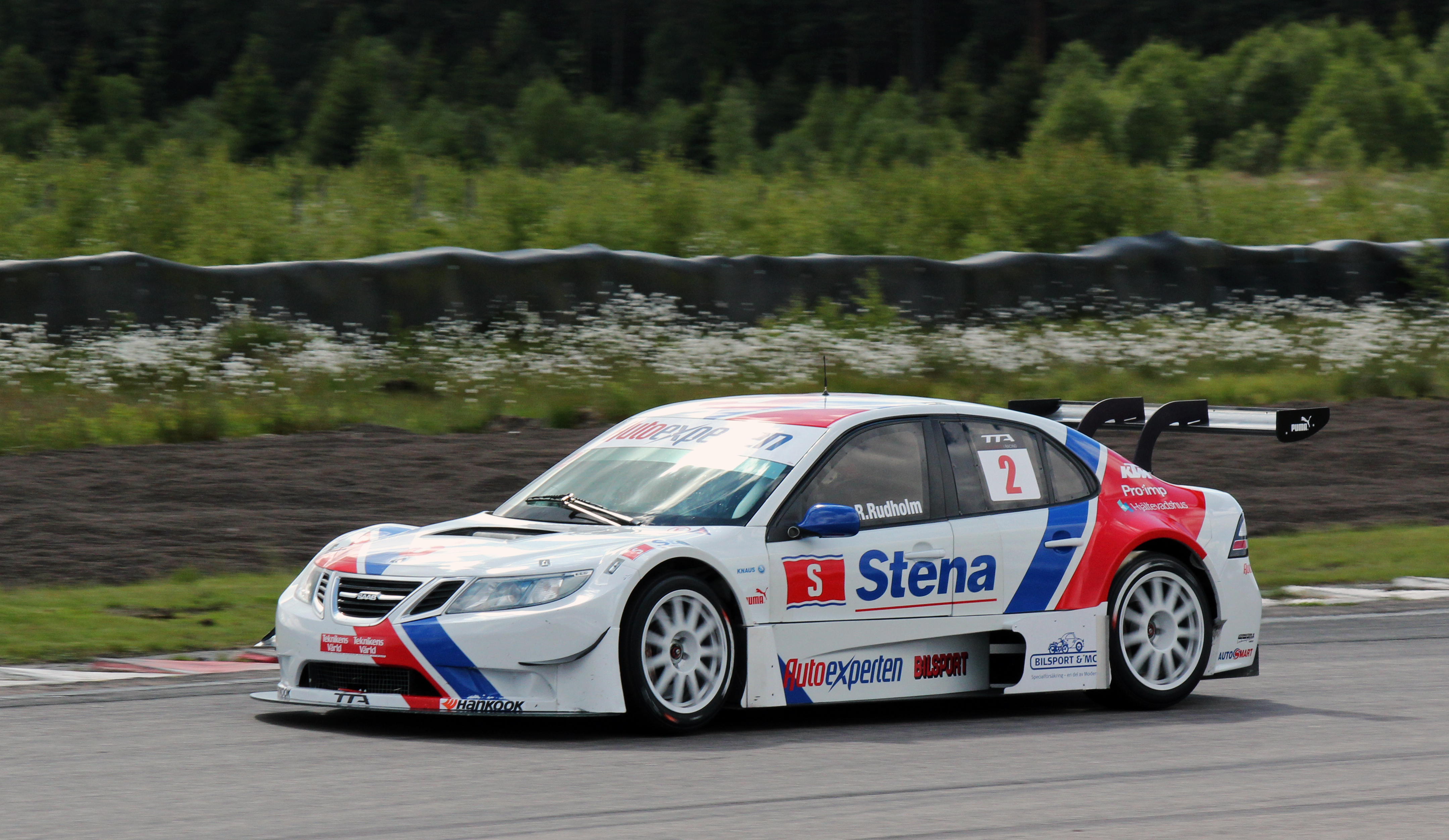 Robin Rudholm in his SAAB 9-3 Solution-F for Flash Engineering in TTA – Racing Elite League at Anderstorp Raceway in 2012.